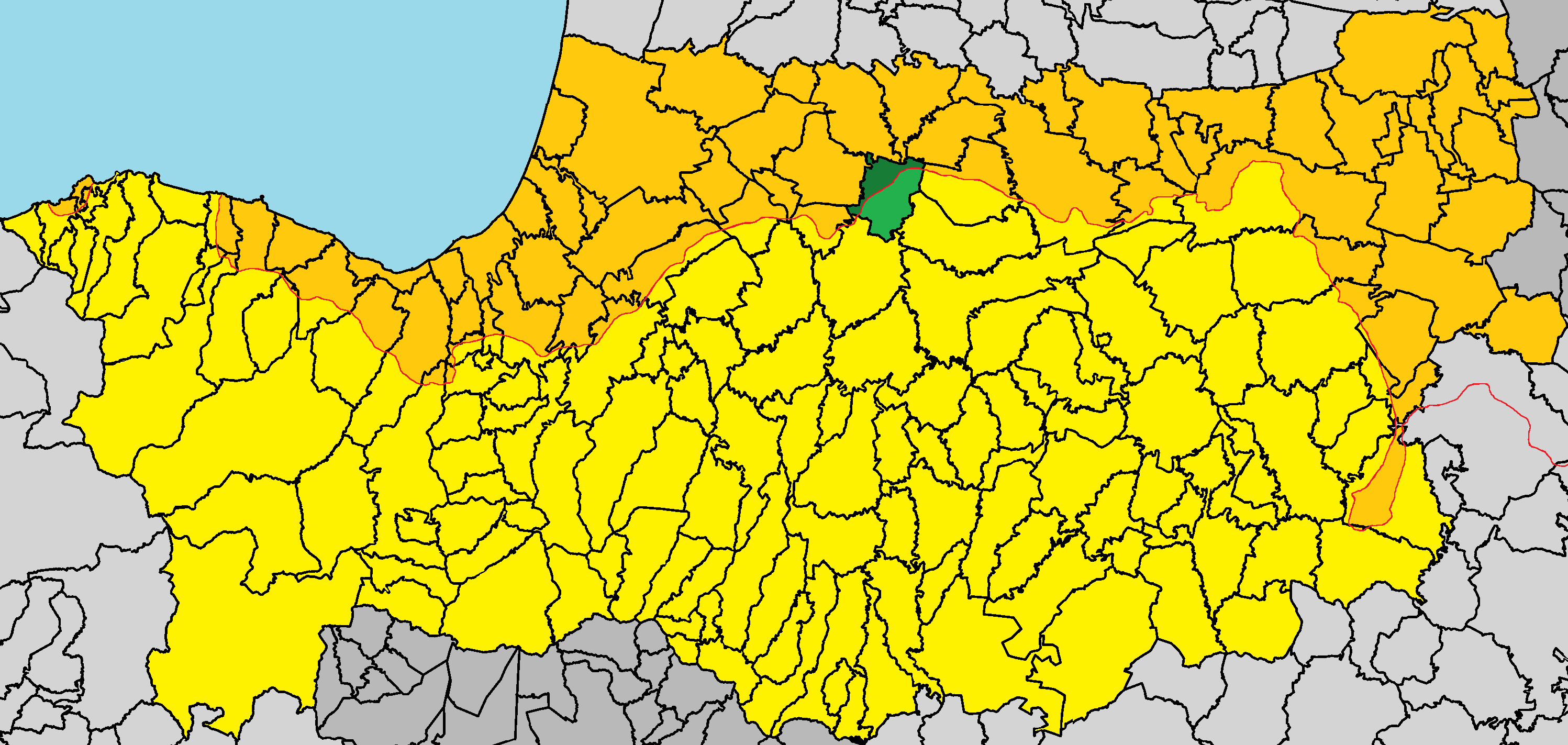 Deneia in Nicosia District (de jure).